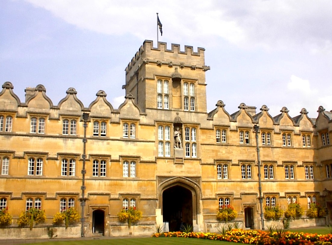 Front Quad, University College, Oxford University.